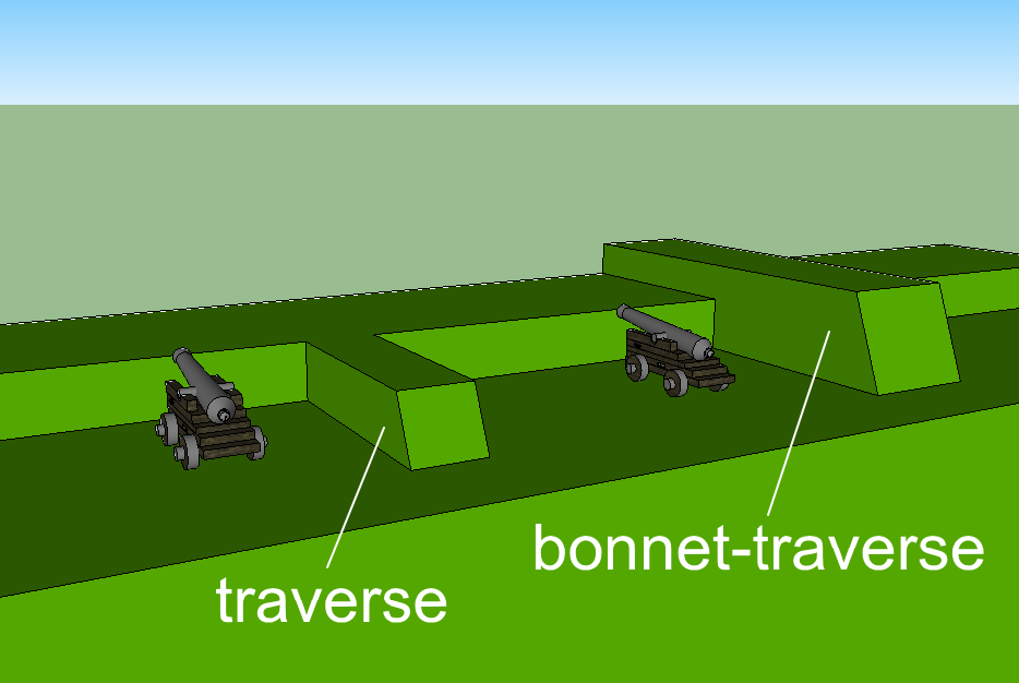 Example of a Traverse / Bonnet Traverse, part of fortifications